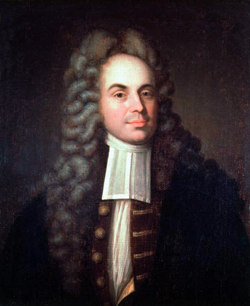 Andrew Hamilton (circa 1676 – 1741) was a Scottish lawyer in Colonial America